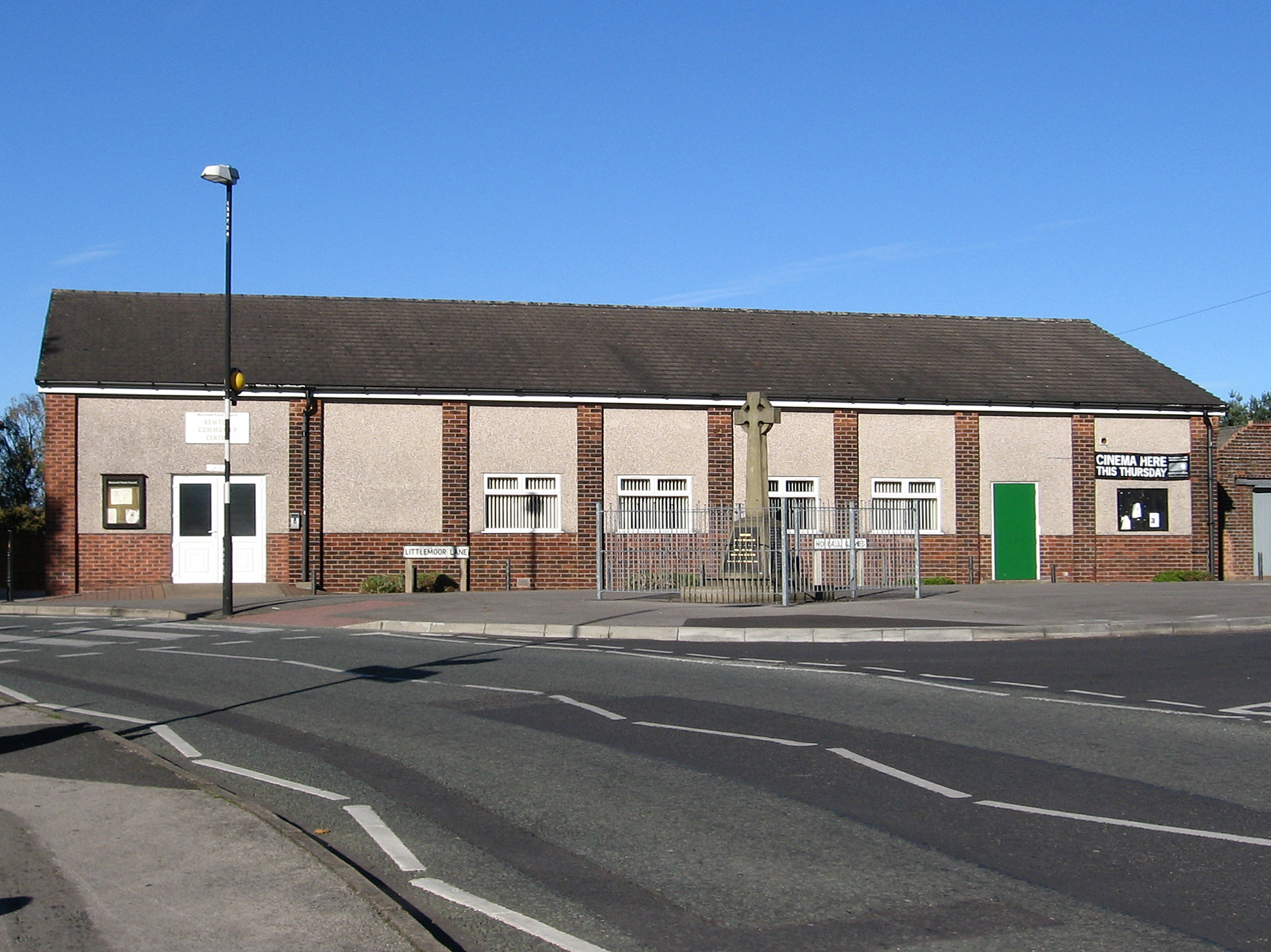 Newton - War Memorial and Community Centre